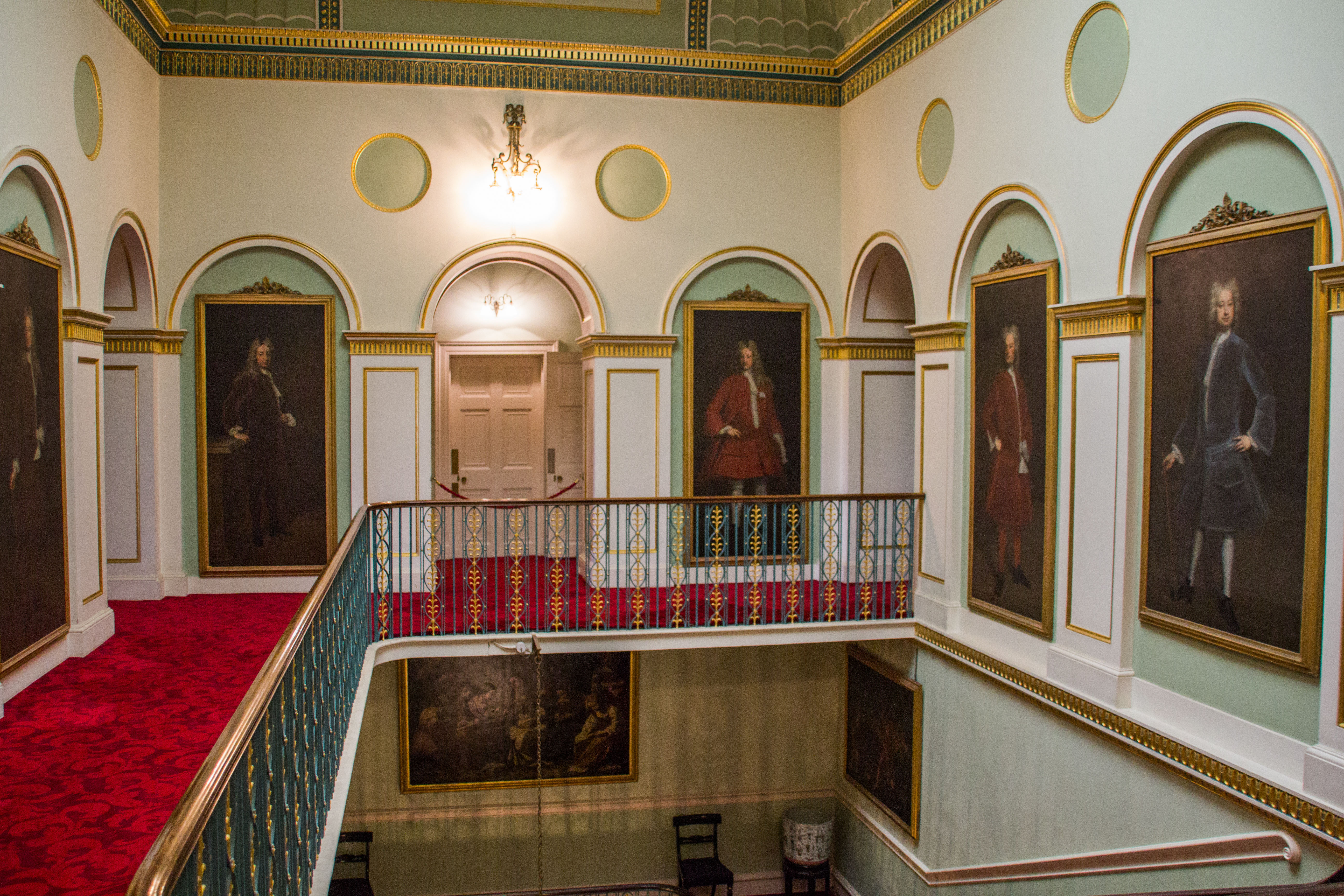 Inside Tatton Hall, Tatton Park, United Kingdom